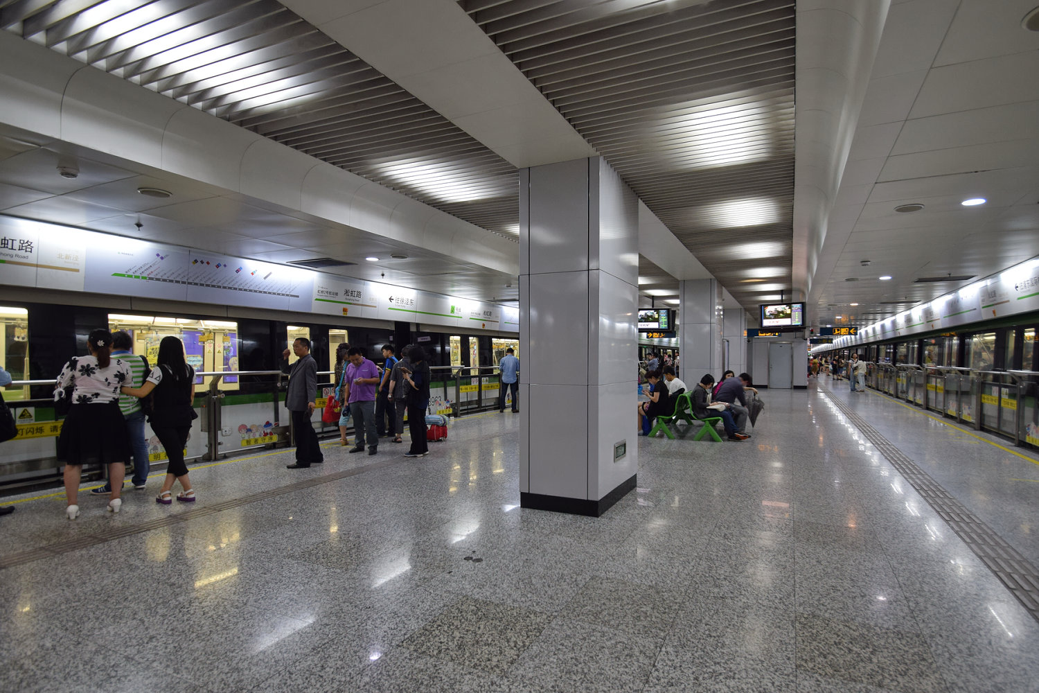 Line 2 Platform of Songhong Road Station, Shanghai Metro